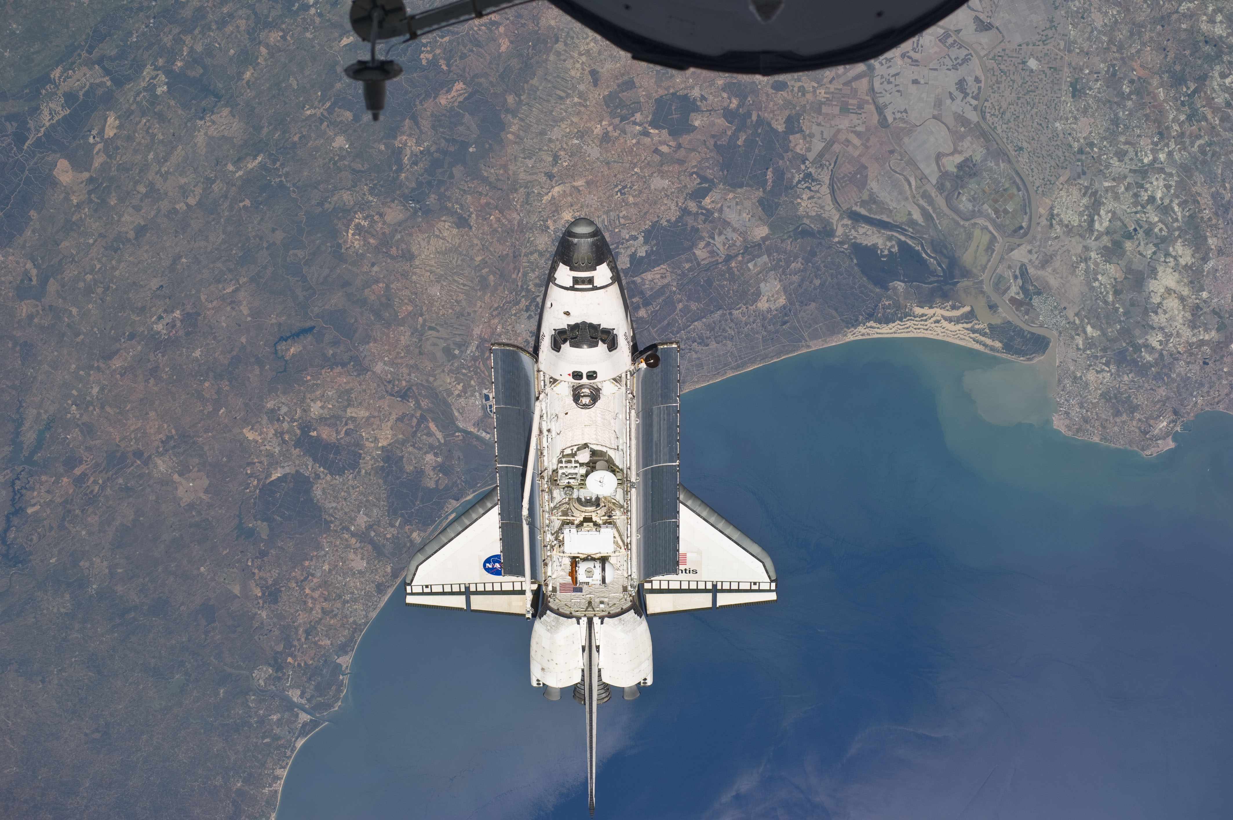 Flying above the Atlantic coast of Spain and the Gulf of Cadiz, the space shuttle Atlantis is shown making its relative approach to the International Space Station, from which this photo was taken. The tip of a Russian spacecraft, temporarily docked to the orbital outpost can be seen at top center. The coast includes the city of Ayamonte (left of image as photographed), past Huelva (under Atlantis), past the sand dunes, the Rio Guadalquivir, to the city of Rota. Center point coordinates of the area pictured in the image are 37.3 degrees north latitude and 6.7 degrees west longitude.